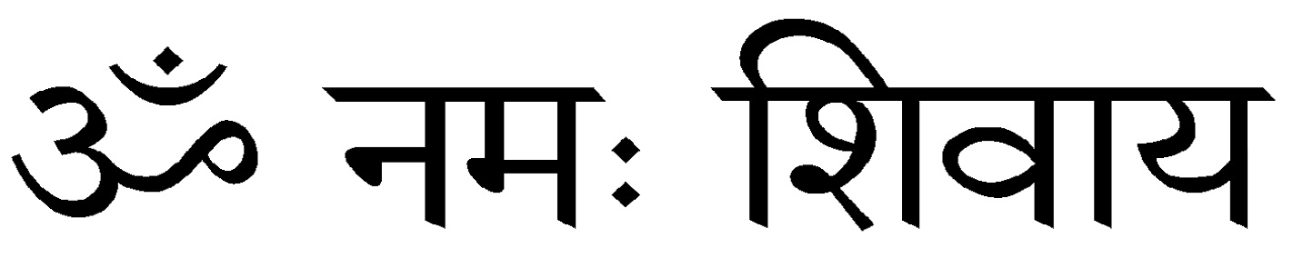 The Mantra "Om Namah Shivaaya" written in Devanagari script.